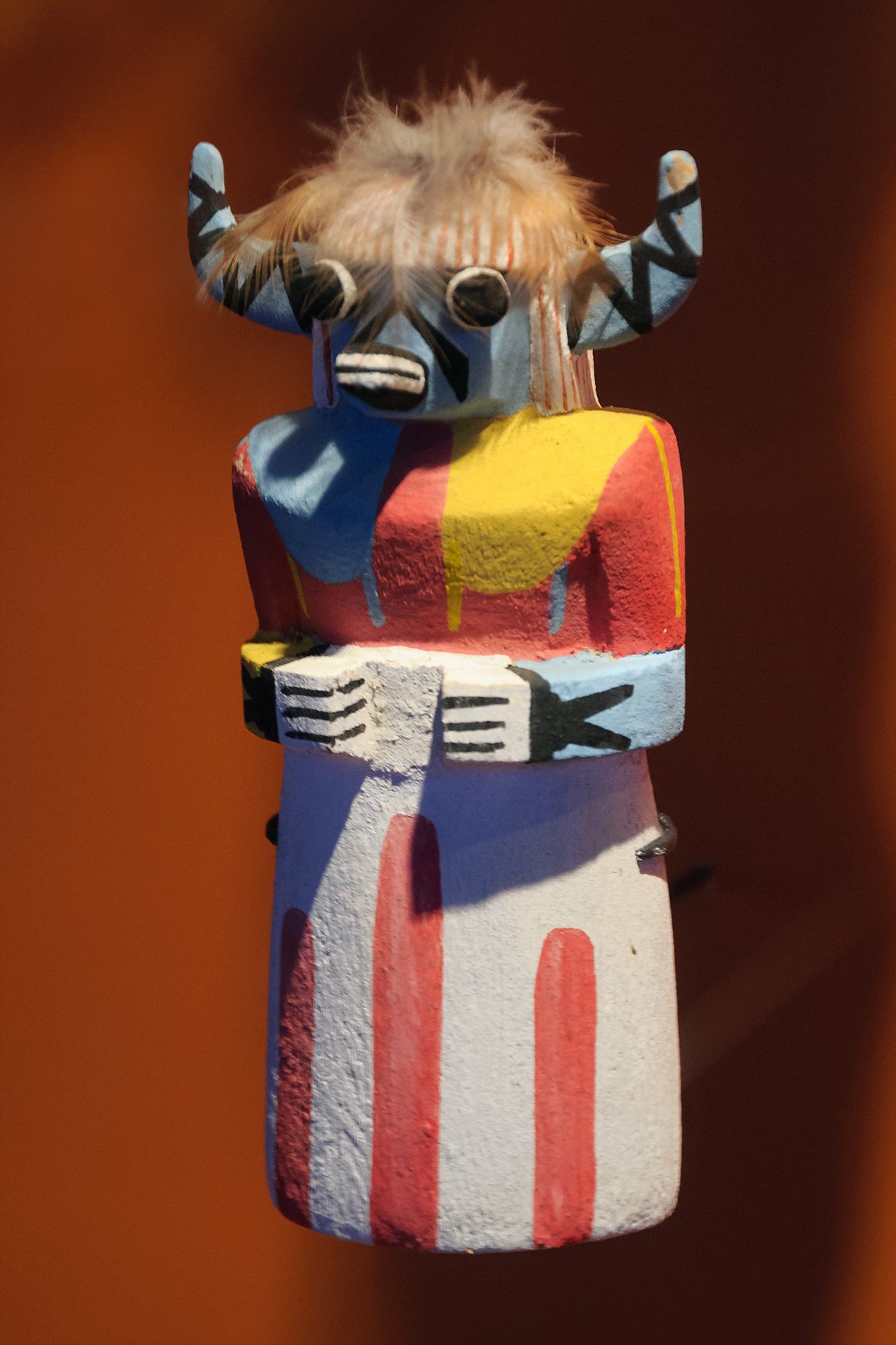 SakwaWakaKatsina (Katsina-Blue-Cow), Hopi kachina dollParis, Laboratoire d'anthropologie sociale, Collège de France.Presented during the exhibition La Fabrique des images (The Making of images) - Musée du quai Branly, Paris (February 16, 2010 - July 17, 2011)